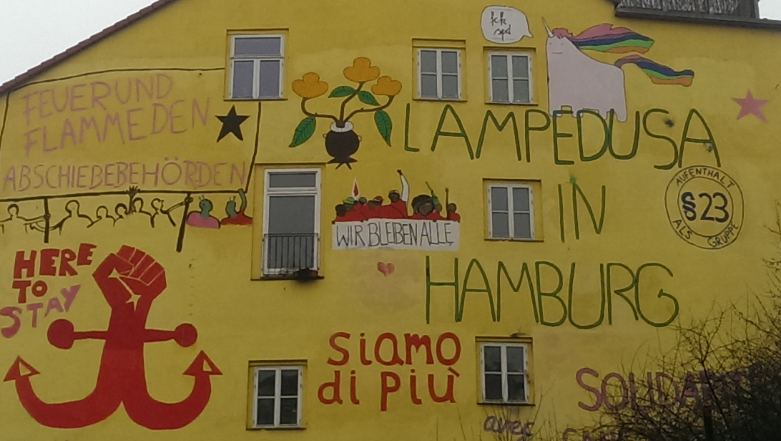 This painting could be found at a house at Hafenstraße.